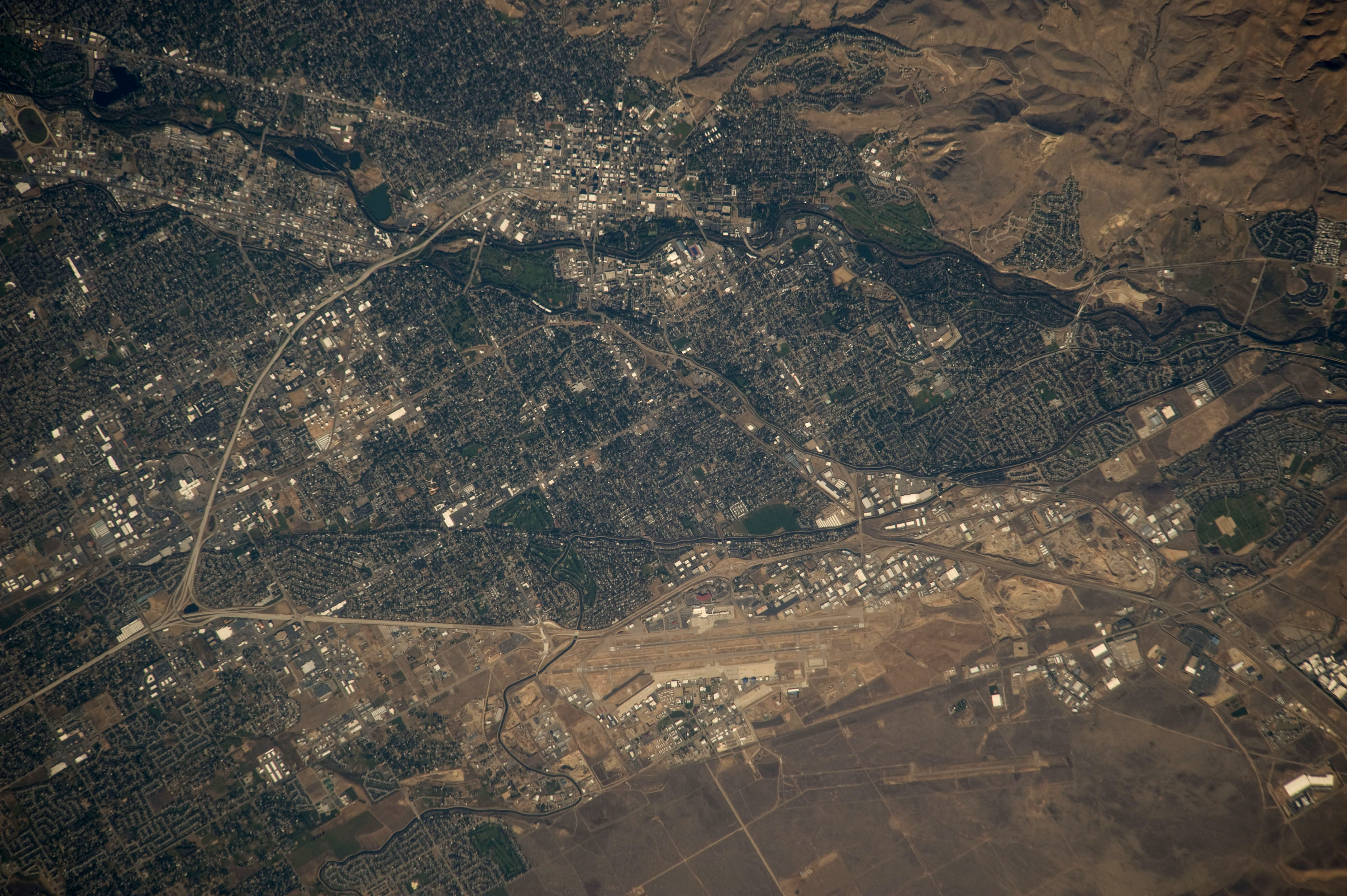 an astronaut photo of Boise, Idaho taken from the International Space Station (ISS).